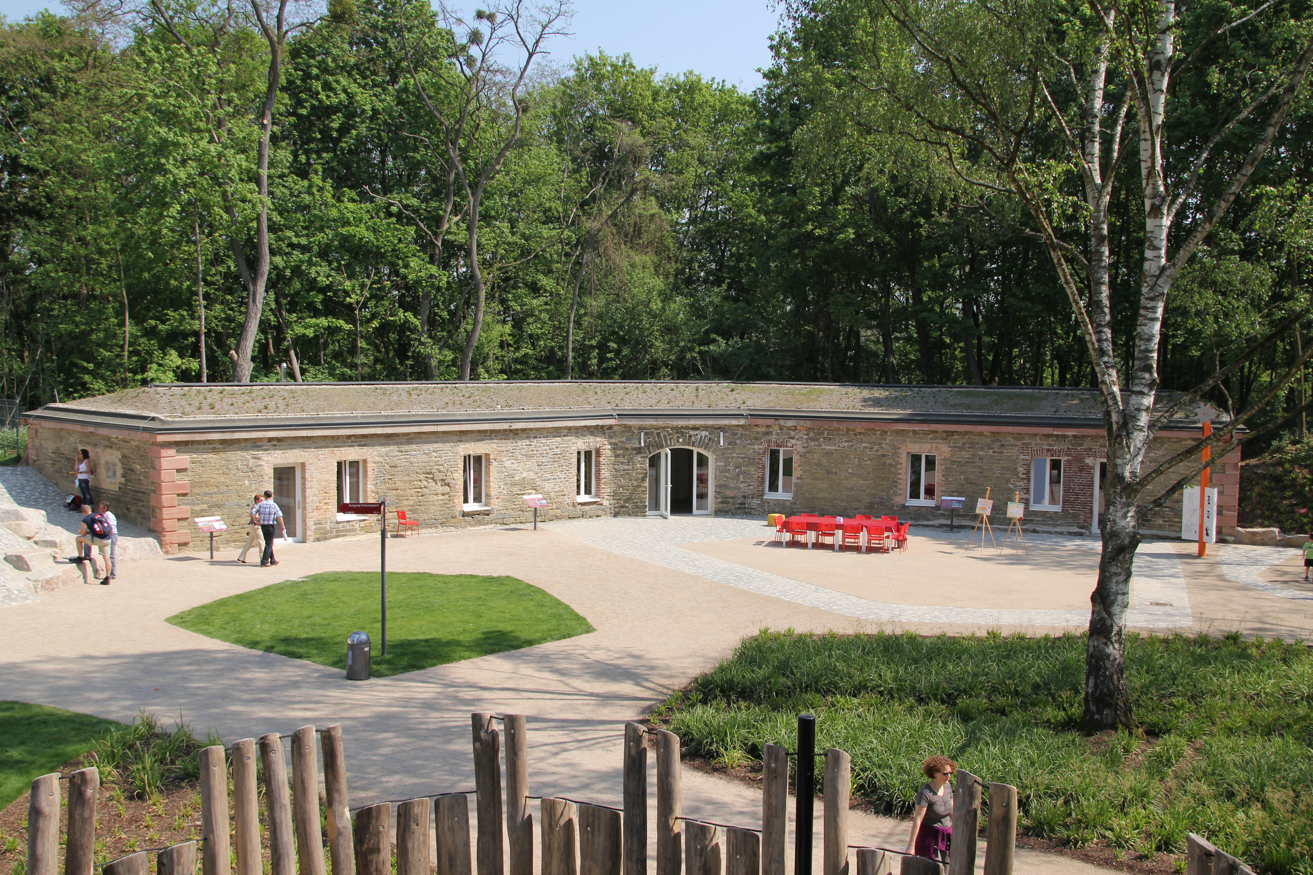 Federal Horticultural Show 2011 in Koblenz - Ehrenbreitstein Fortress